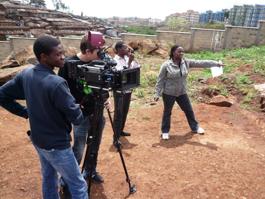 Shooting feature film Togetherness Supreme in Kibera slums. Shot on RED ONE camera using students from the Kibera Film School.